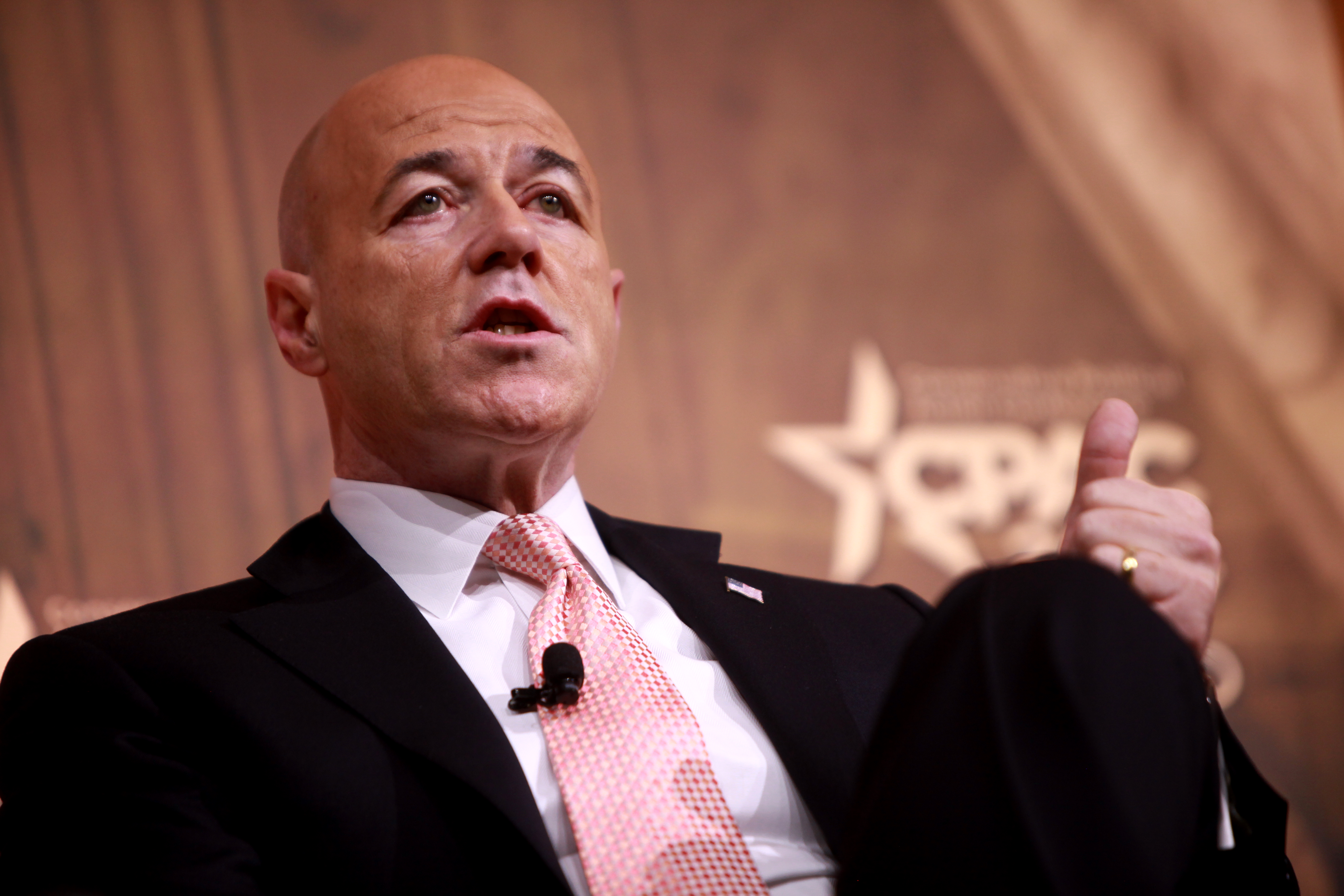 Bernard Kerik speaking at the 2014 Conservative Political Action Conference (CPAC) in National Harbor, Maryland.